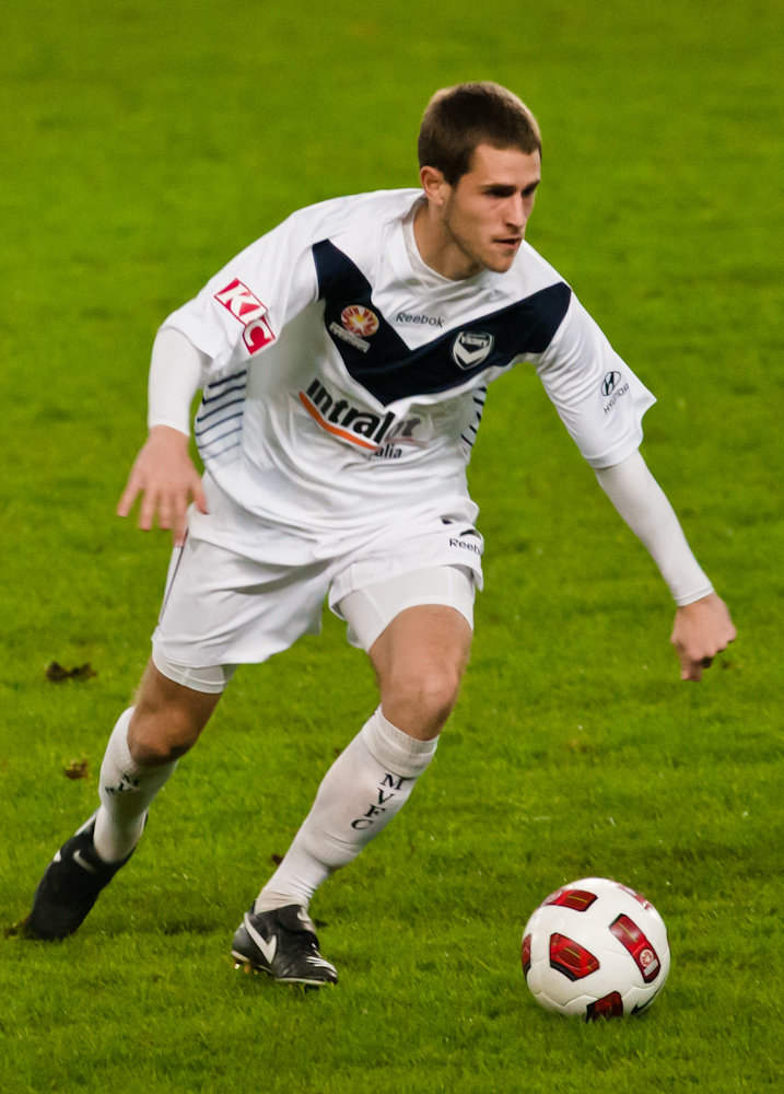 Mate Dugandžić playing for Melbourne Victory FC in Round 1 of the 2010-11 A-League against Sydney FC.